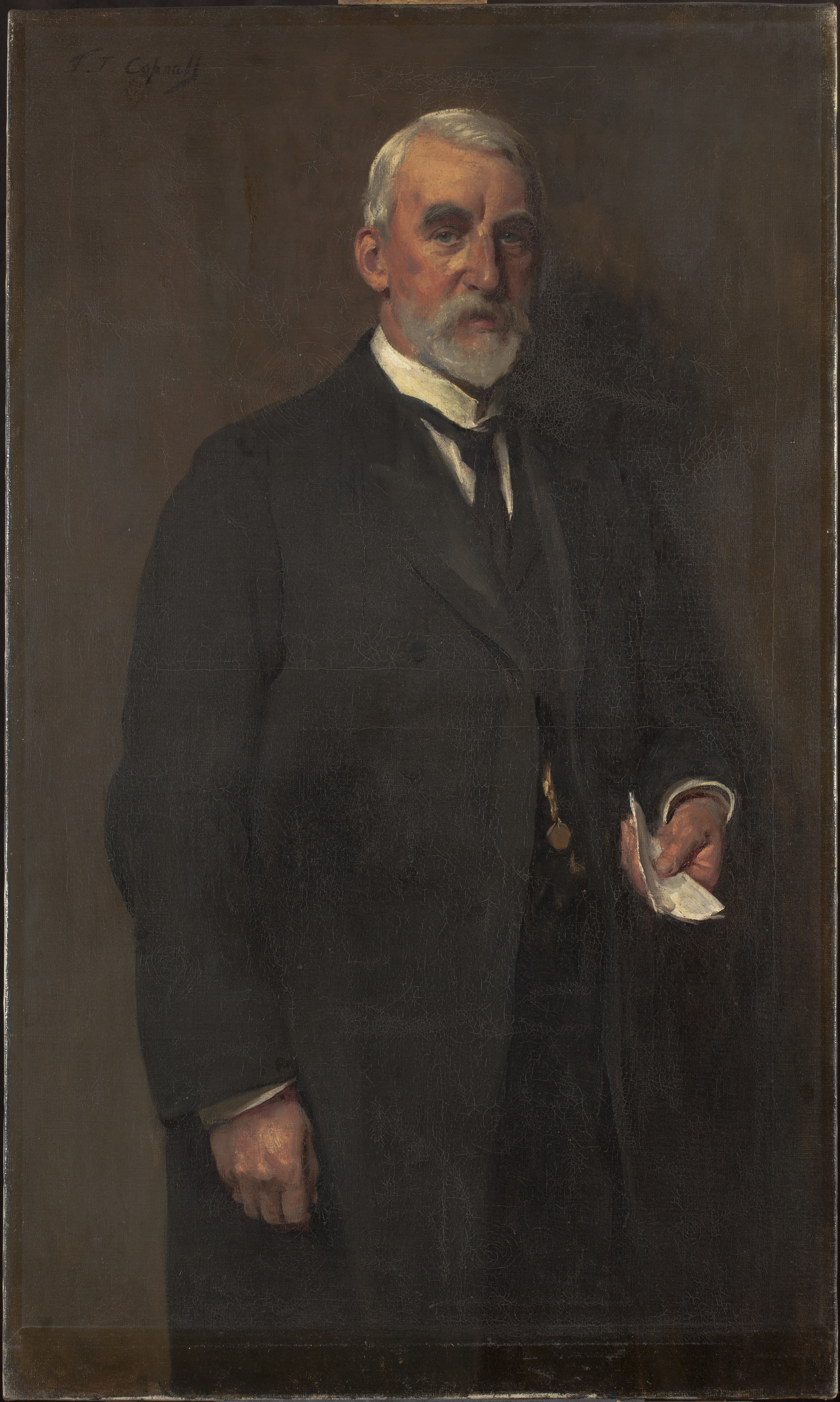 Portrait (in private collection) of Thomas Henry Barker, Secretary of the Liverpool Chamber of Commerce.